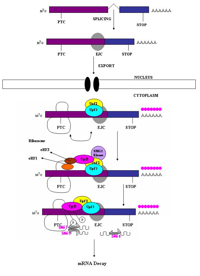 Vertebrate mechanism of NMD